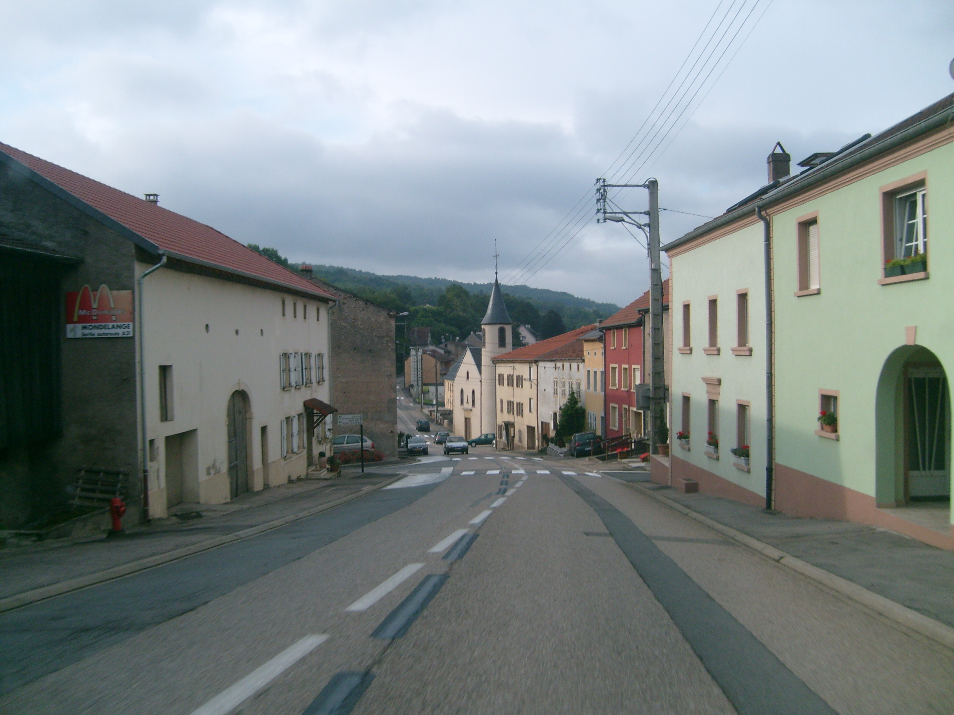 Main street of Apach, Lorraine, France.